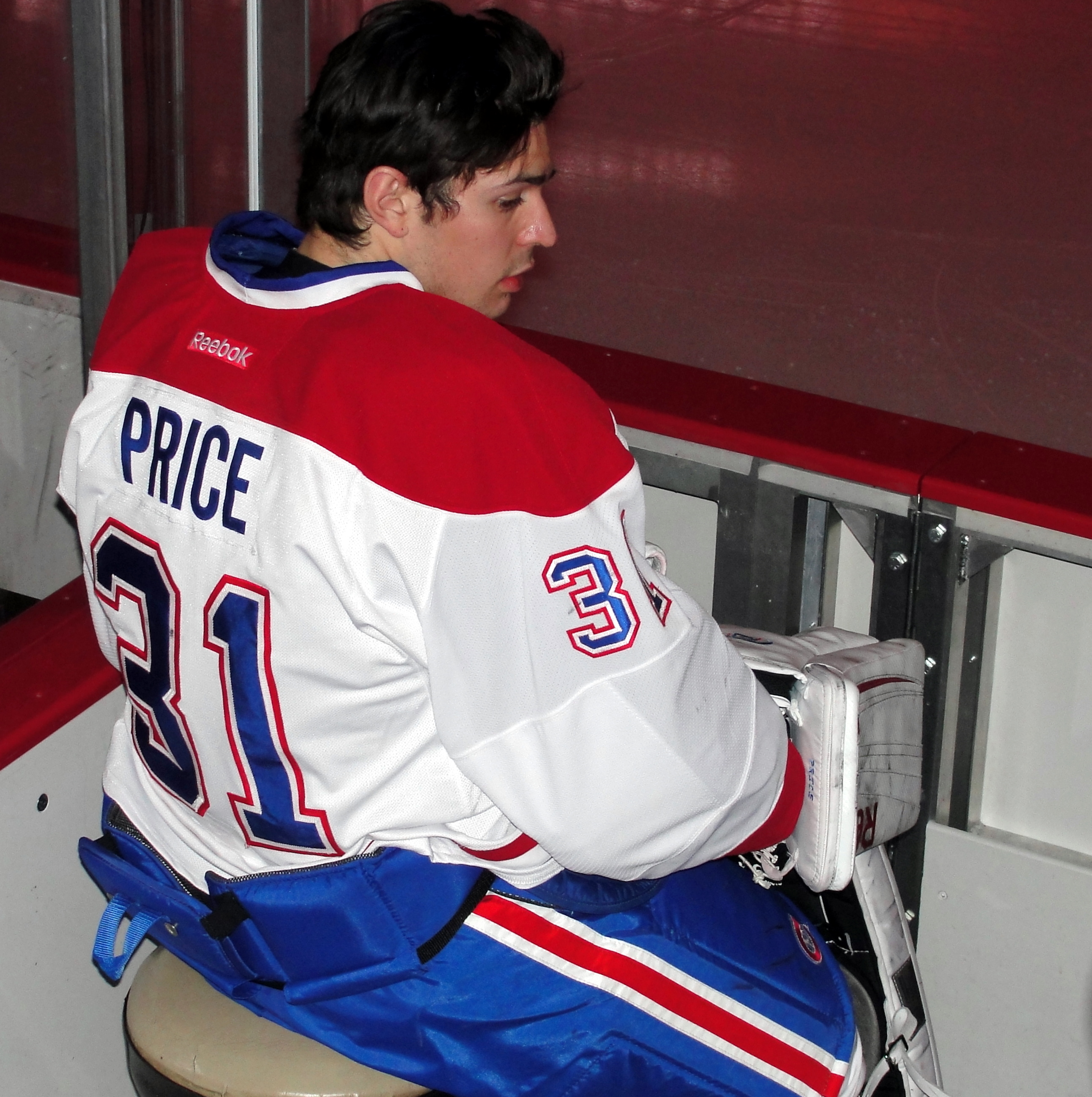 Carey Price in the backup role for the Montreal Canadiens against the Pittsburgh Penguins, January 20, 2012 at Consol Energy Center in Pittsburgh, PA.